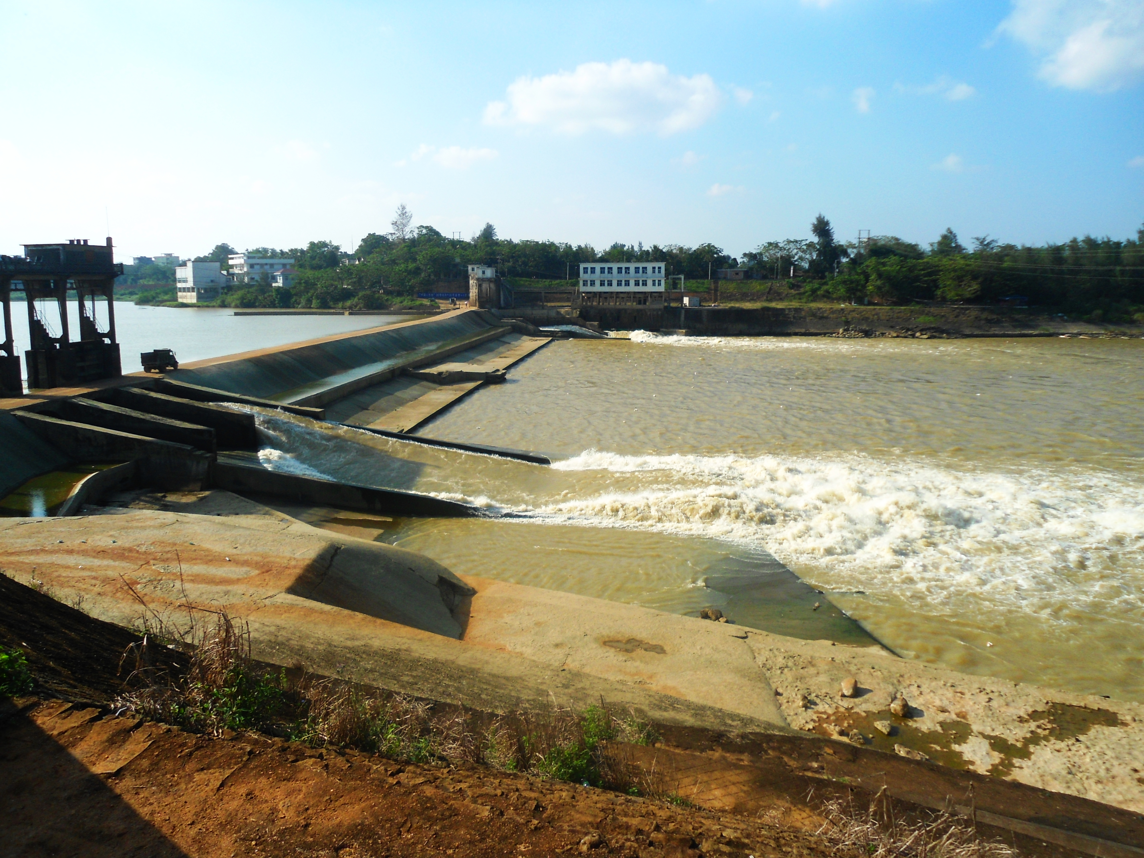 Nandu River Dam viewed from the east, Longtang, Qiongshan District, Hainan, China.